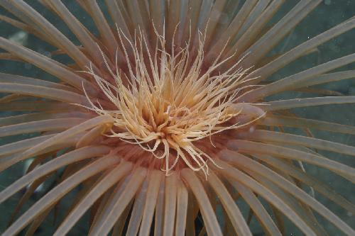 The tube anemone Pachycerianthus fimbriatus and its incredible tentacles.